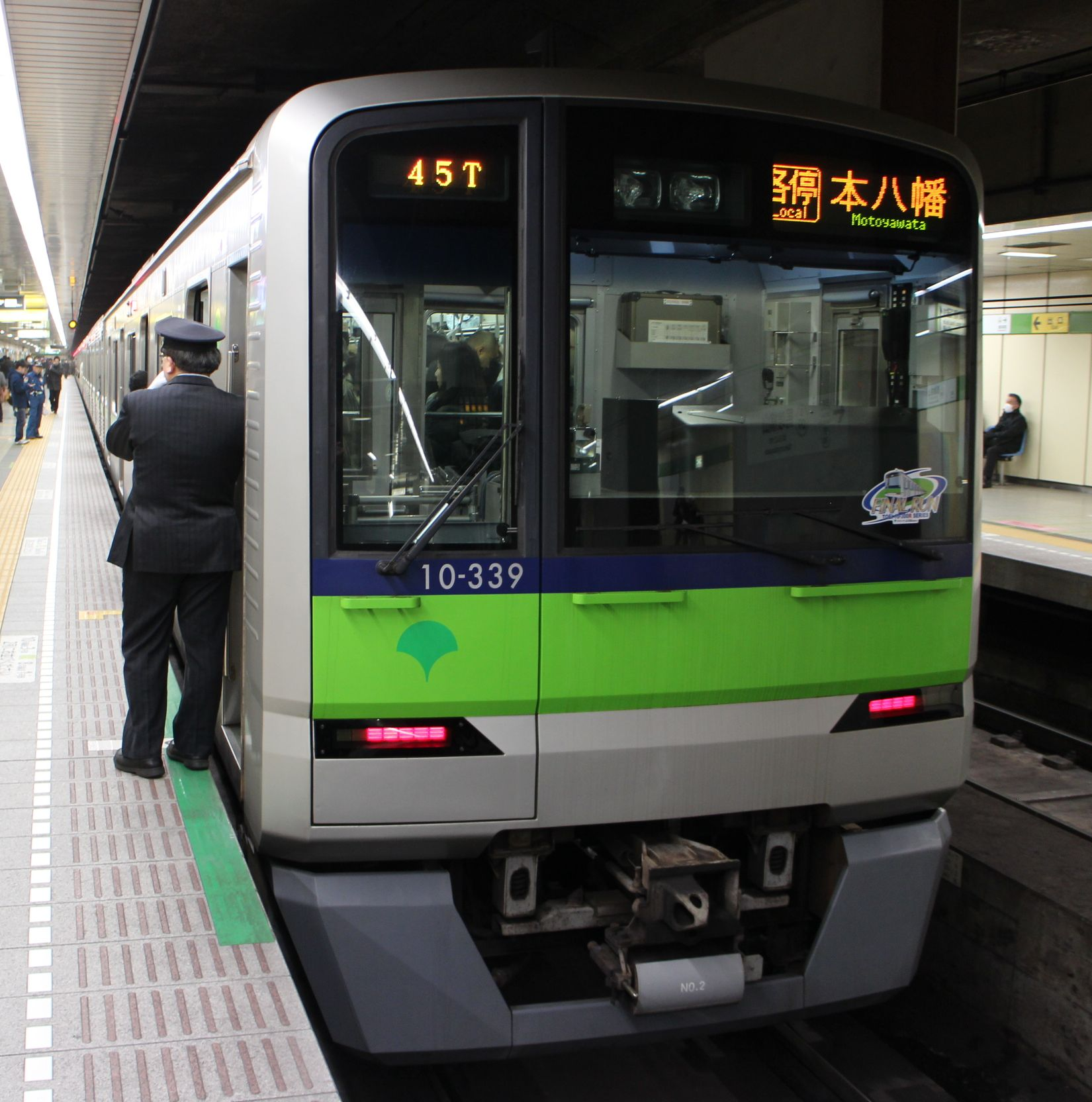 Toei 10-300R series EMU set 10-330 at Bakuro-Yokoyama Station on the last day in service for 10-300R series sets